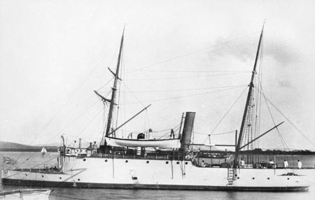 AWM Caption: 1889. GUNBOAT PALUMA SHOWING HER PORT SIDE WHILST OPERATING AS A SURVEY VESSEL.